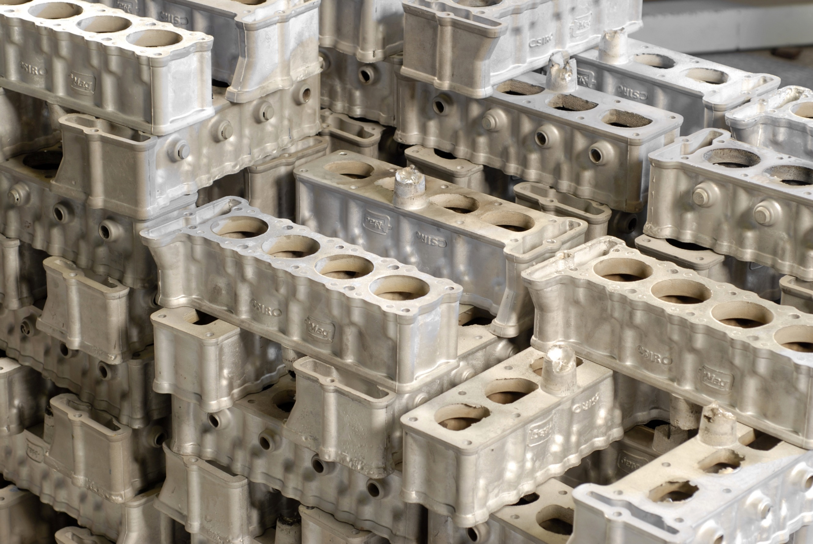 Mg alloy car engine blocks